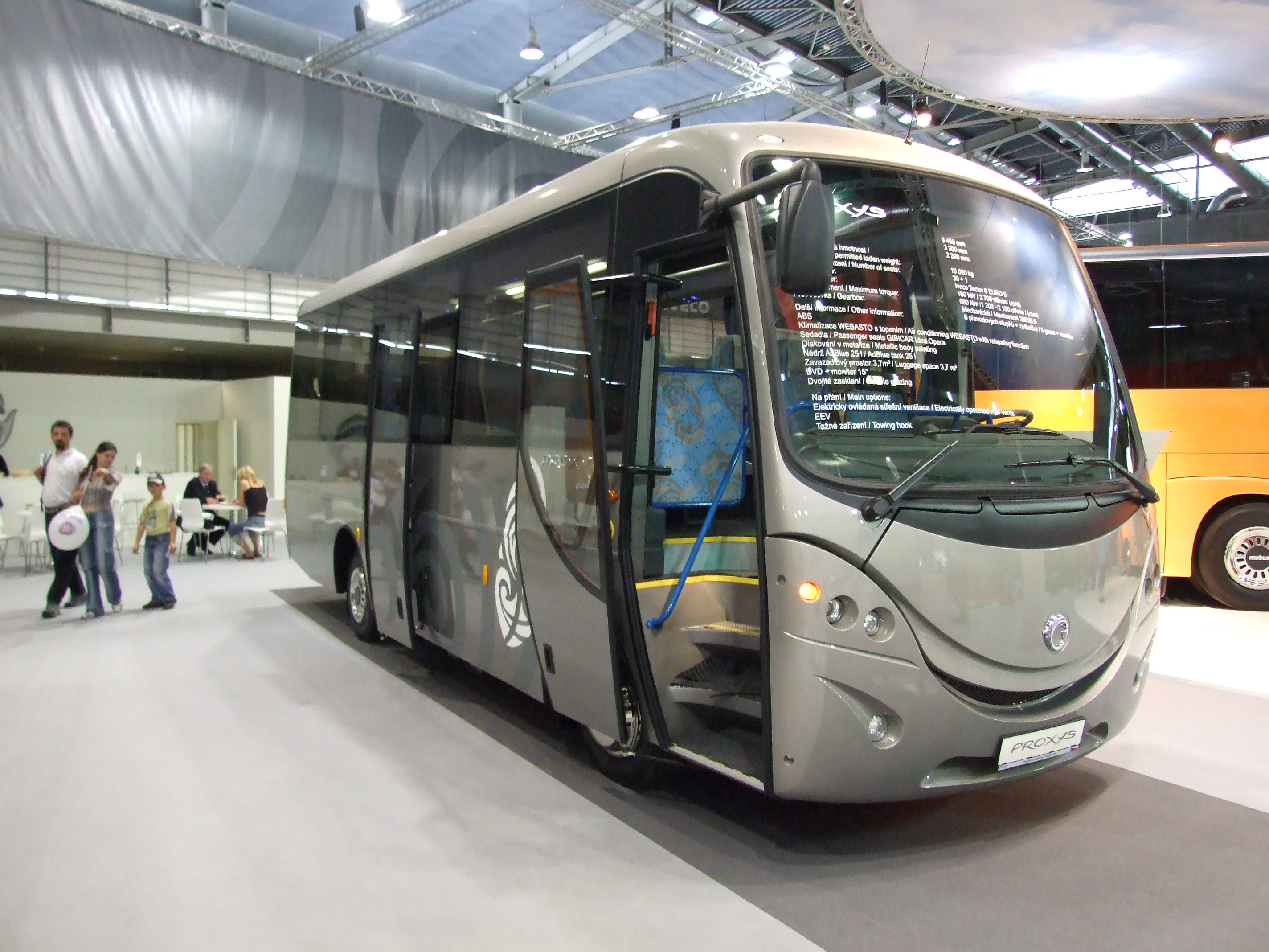 Irisbus Proxys bus at Autotec 2008 fair in Brnohelp